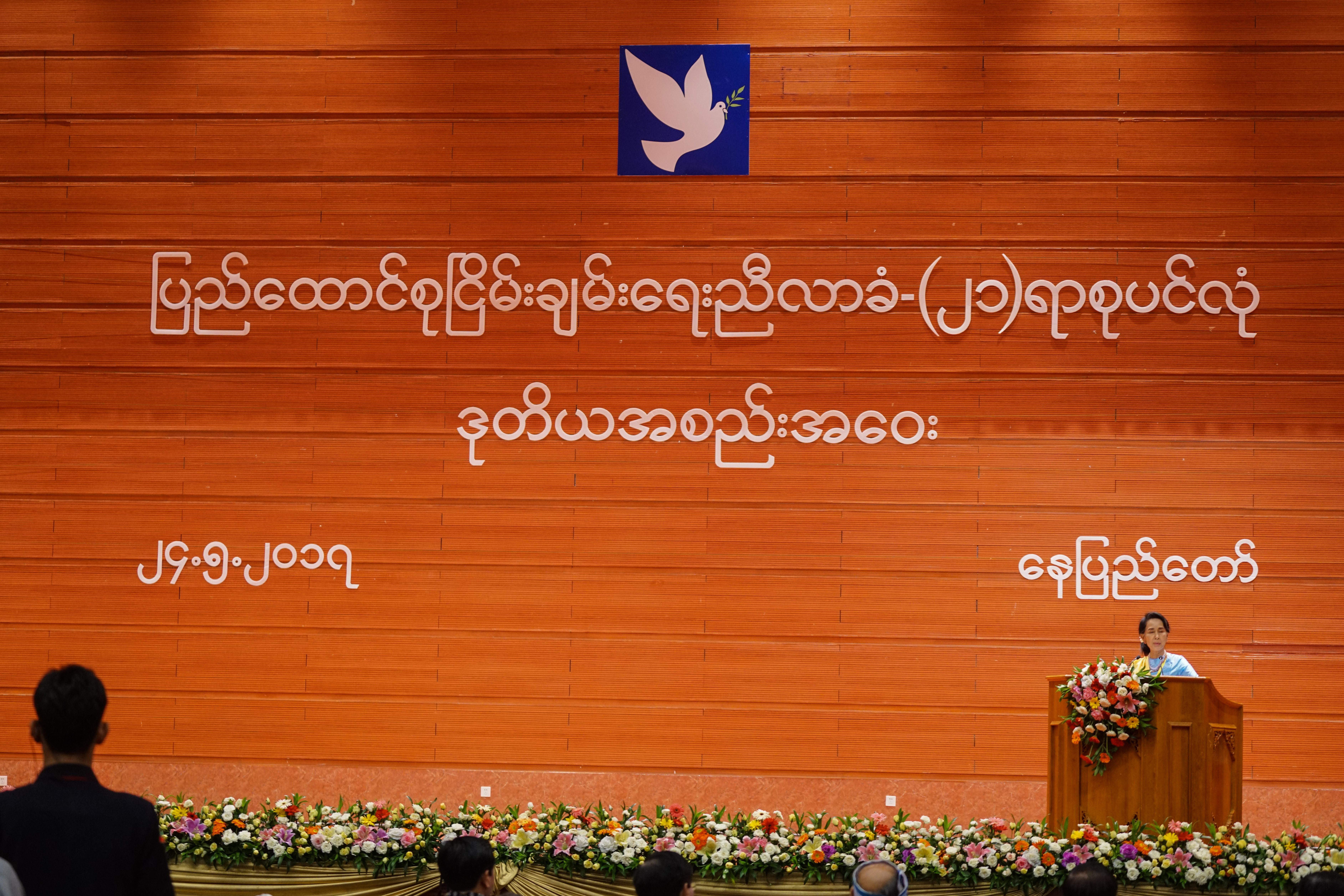 Aung Sang Suu Kyi at the 21st Century Panglong Union Peace Conference. Photo by A. N. Soe of VOA.